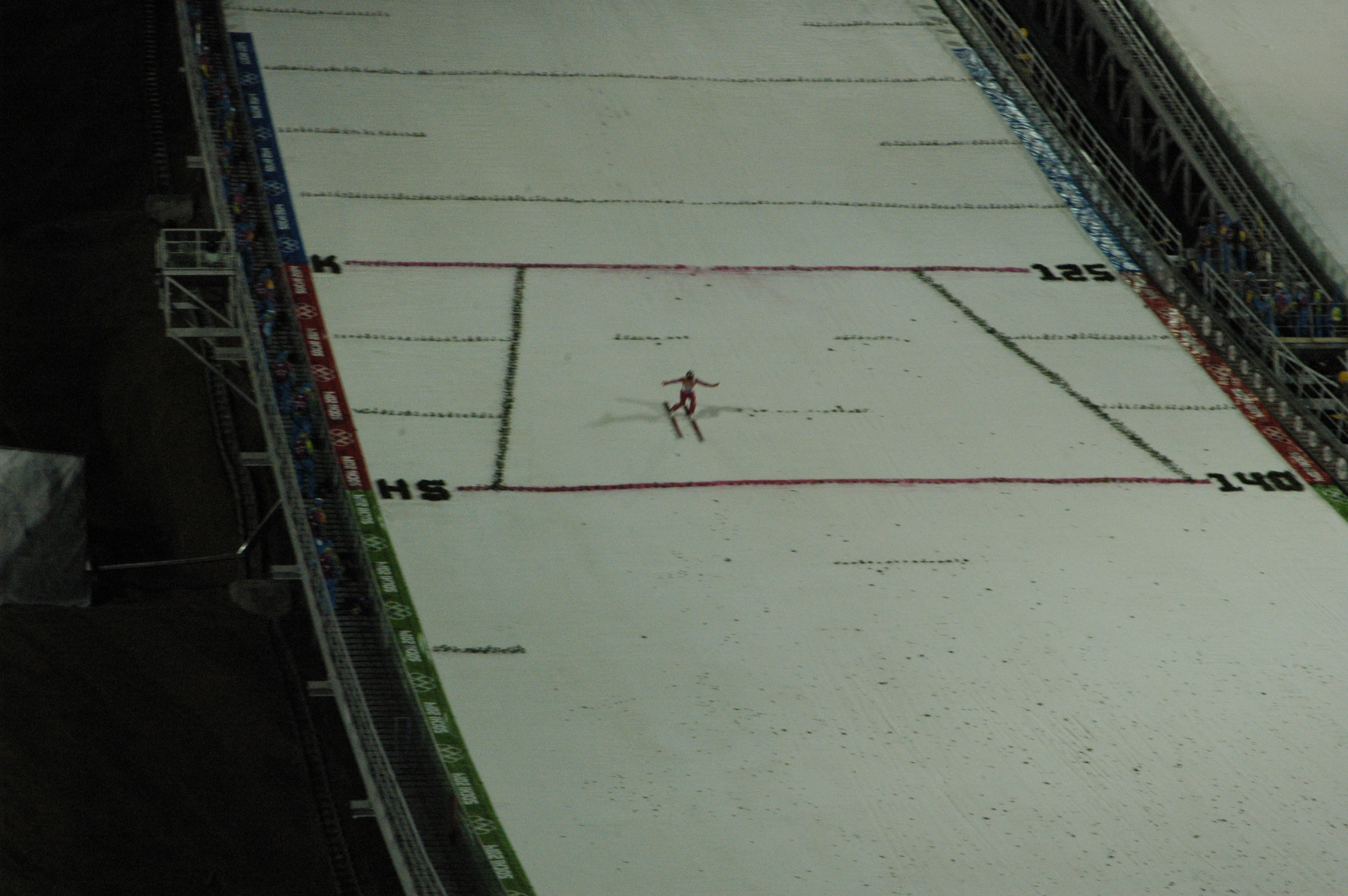 Men's large hill individual qualification, 2014 Winter Olympics